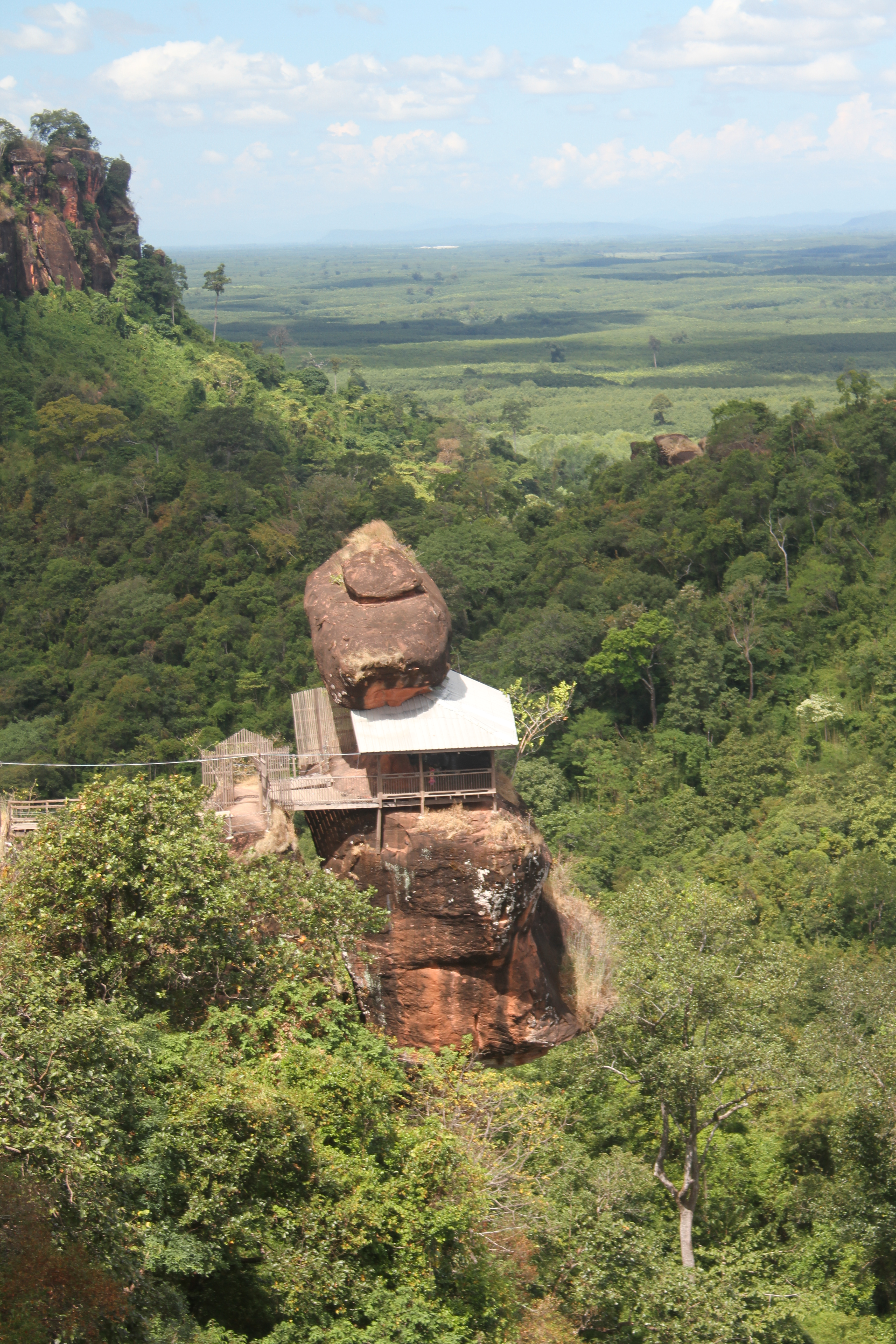 a rock, still there, wainting for the next rain to go down the hill